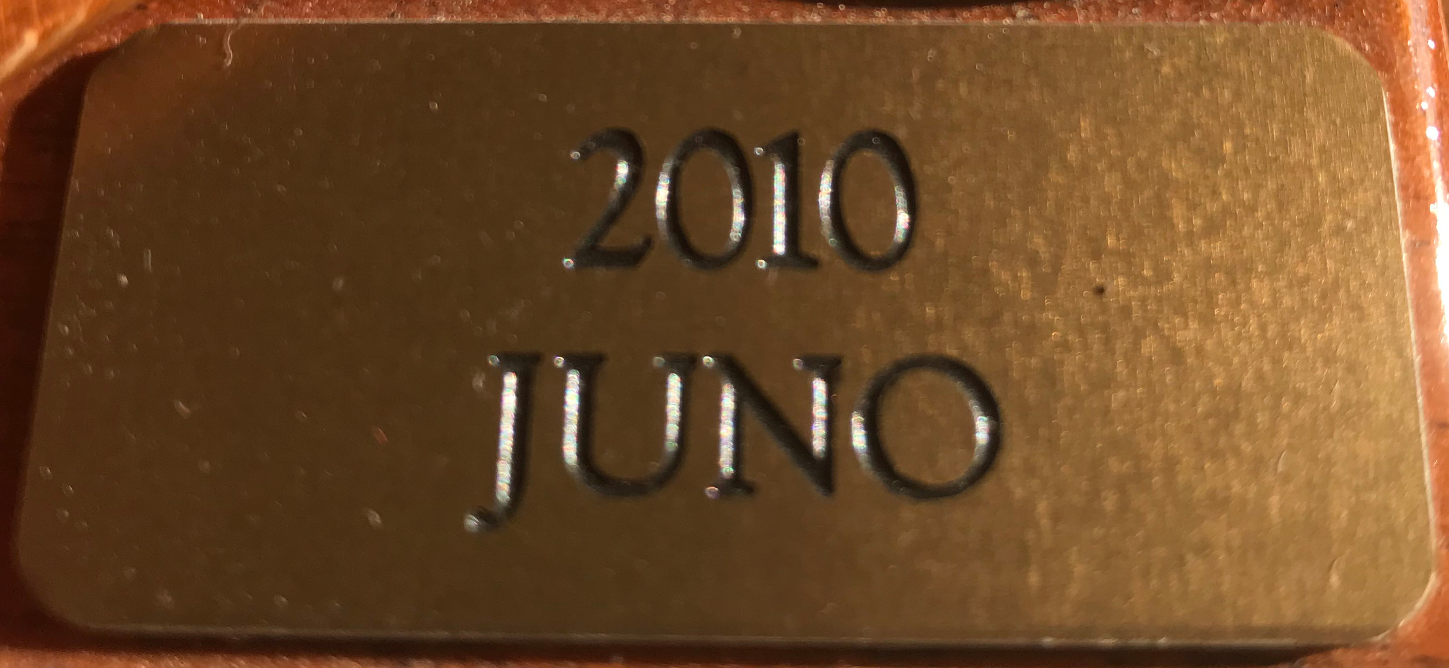 Patch on the Trophy